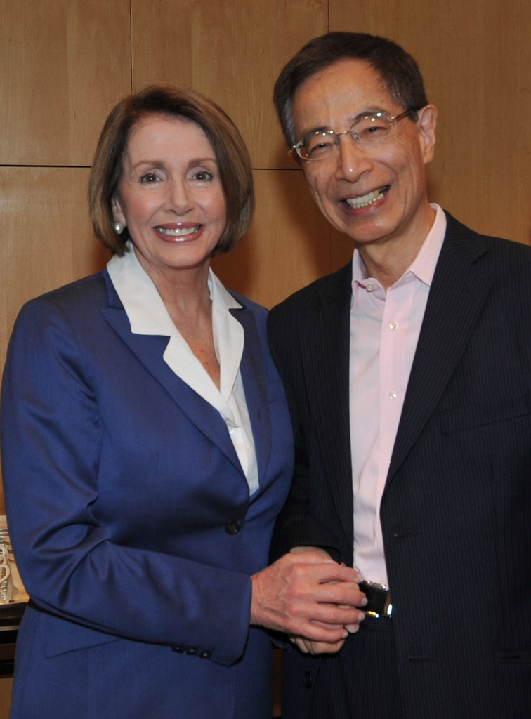 Speaker Pelosi and the bipartisan congressional delegation met with Martin Lee, a democracy leader who founded the Hong Kong Democratic Party, to discuss the status of democracy in Hong Kong.